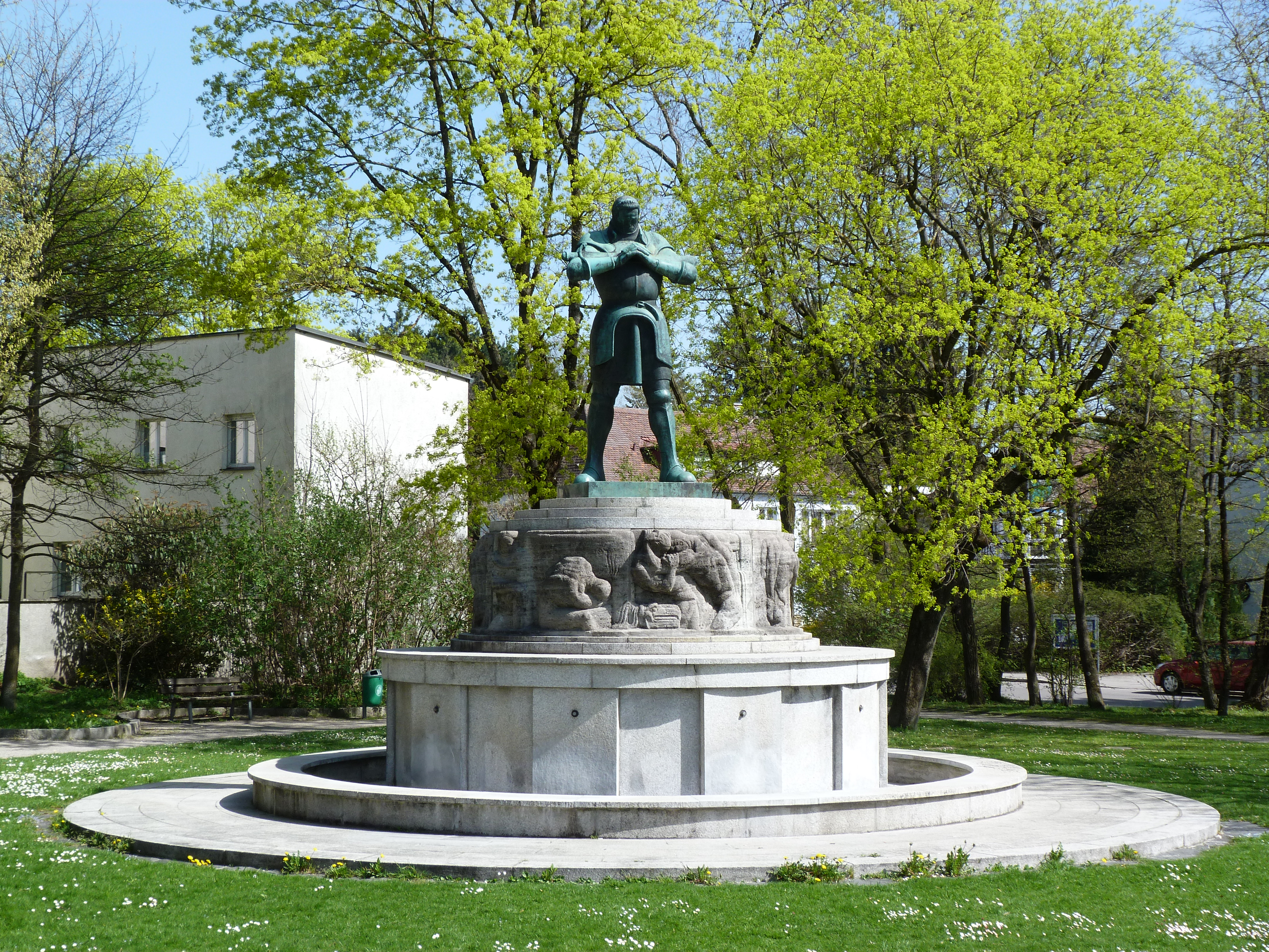 Ruediger-Brunnen at Neugablonz, Bavaria, Germany - 1904 by sculptor Franz Metzner